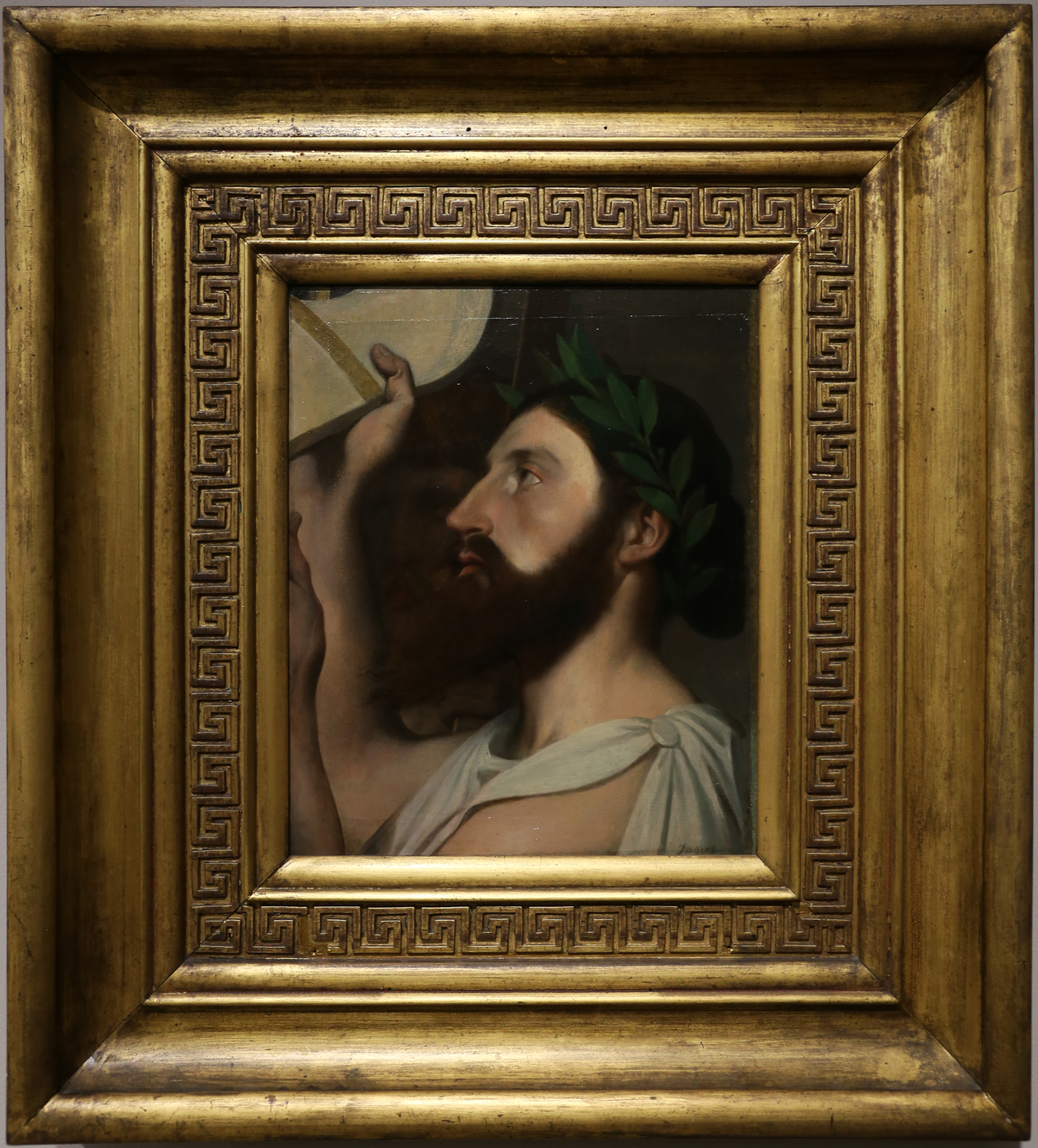 French paintings in the National Gallery, London